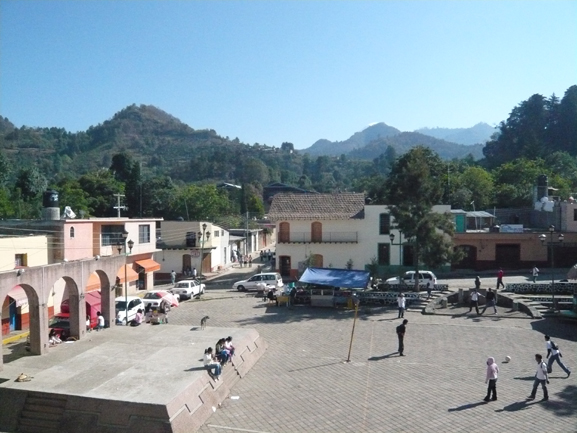 The Main Plaza of Hueyapan, Morelos seen from the palacio.